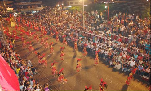 carnaval naranjos